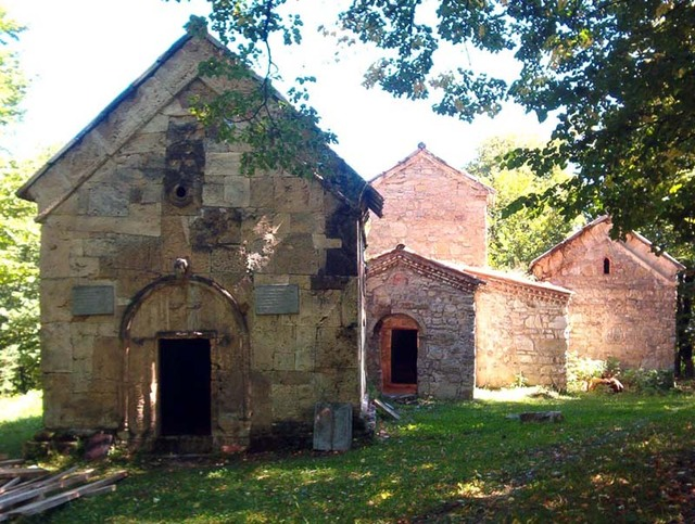 churchs Tskhrakara of Matani